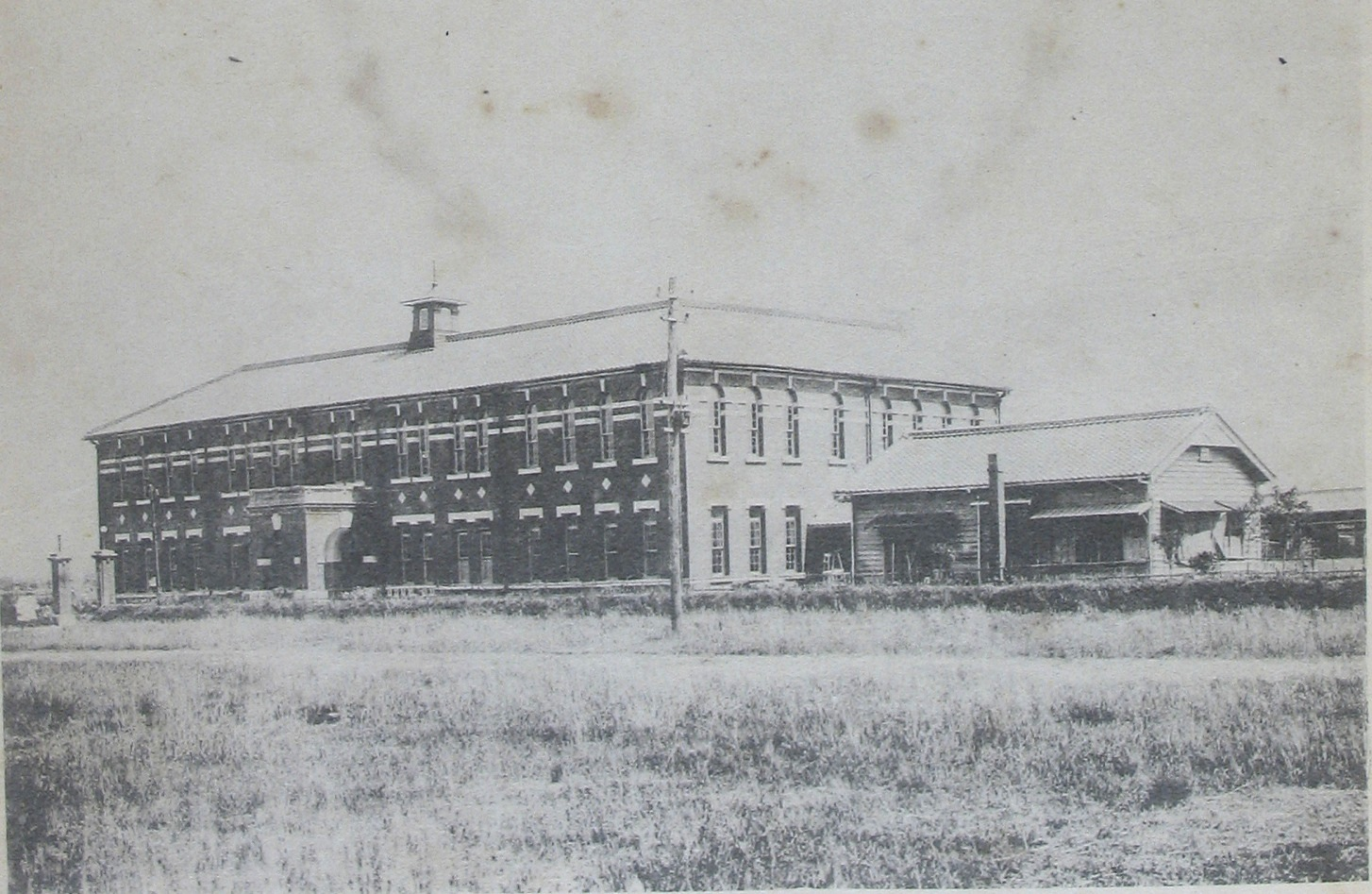 Taiwan Shōkō